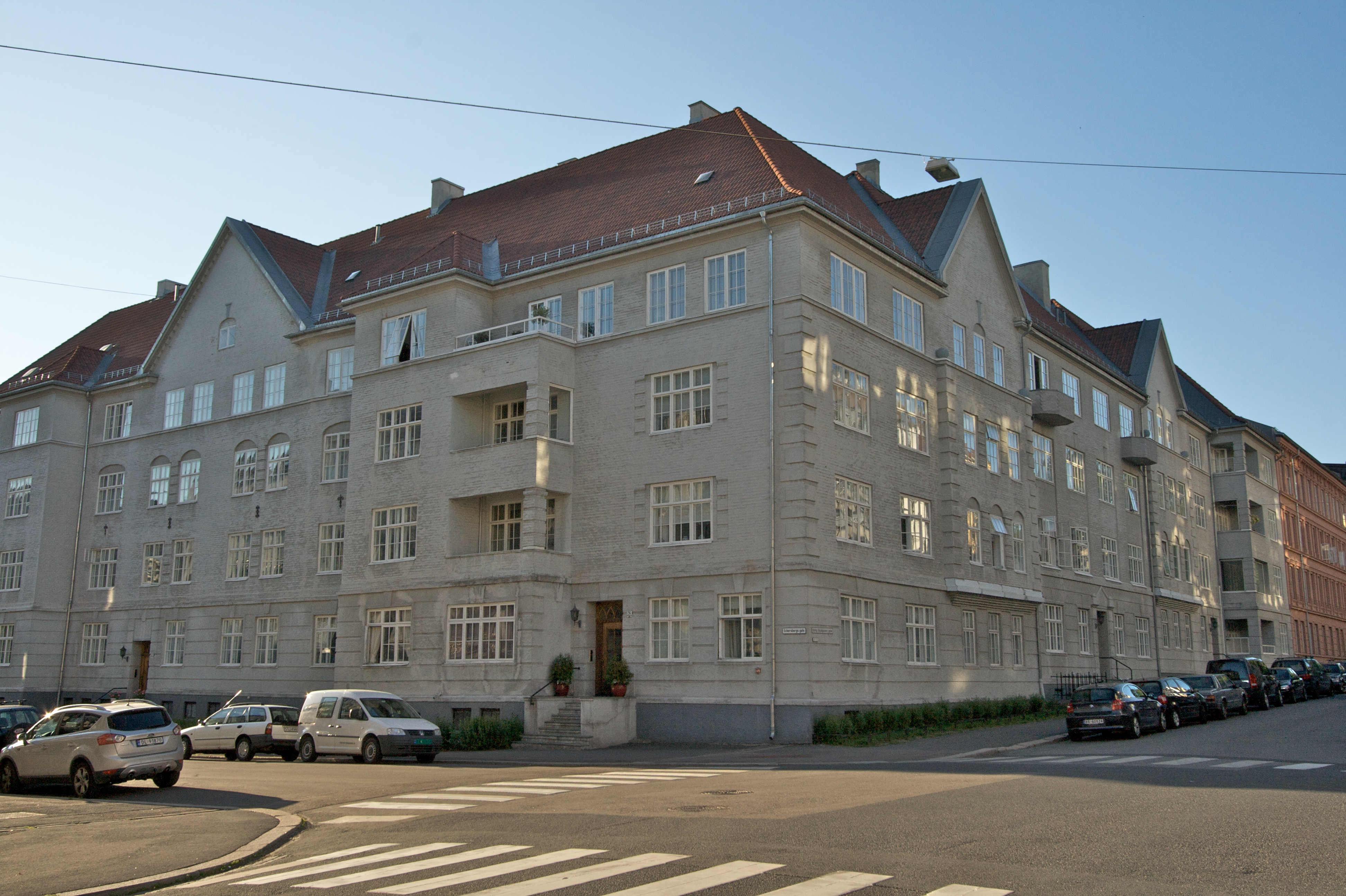 26 Erling Skjalgssons street, Frogner, Oslo, Norway. Vidkun Quisling lived here until 1941.